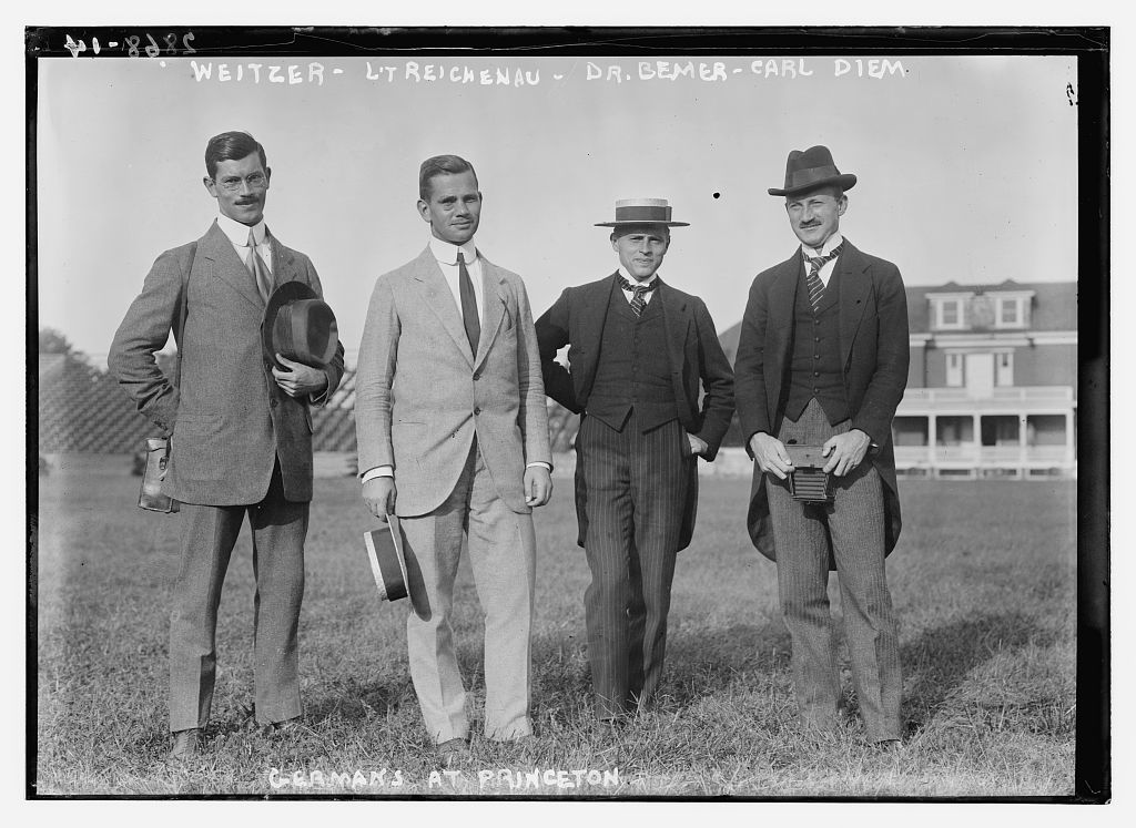 Bain News Service,, publisher. Germans at Princeton University -- Weitzer - Lt. Reichenau - Dr. Bemer - Carl Diem in 1913 [between ca. 1910 and ca. 1915] 1 negative : glass ; 5 x 7 in. or smaller. Notes: Title from unverified data provided by the Bain News Service on the negatives or caption cards. Forms part of: George Grantham Bain Collection (Library of Congress). Format: Glass negatives. Repository: Library of Congress, Prints and Photographs Division, Washington, D.C. 20540 USA, General information about the Bain Collection is available at Persistent URL: Call Number: LC-B2- 2868-14